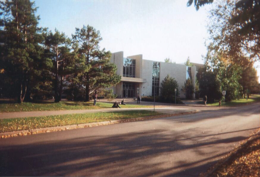 Edwards School of Business (PotashCorp Centre), 25 Campus Drive, University of Saskatchewan, Saskatoon, Saskatchewan, Canada. Opened 2002. Architect: Kindrachuk Agrey Architects Limited. Contractor: Wolfe Management.